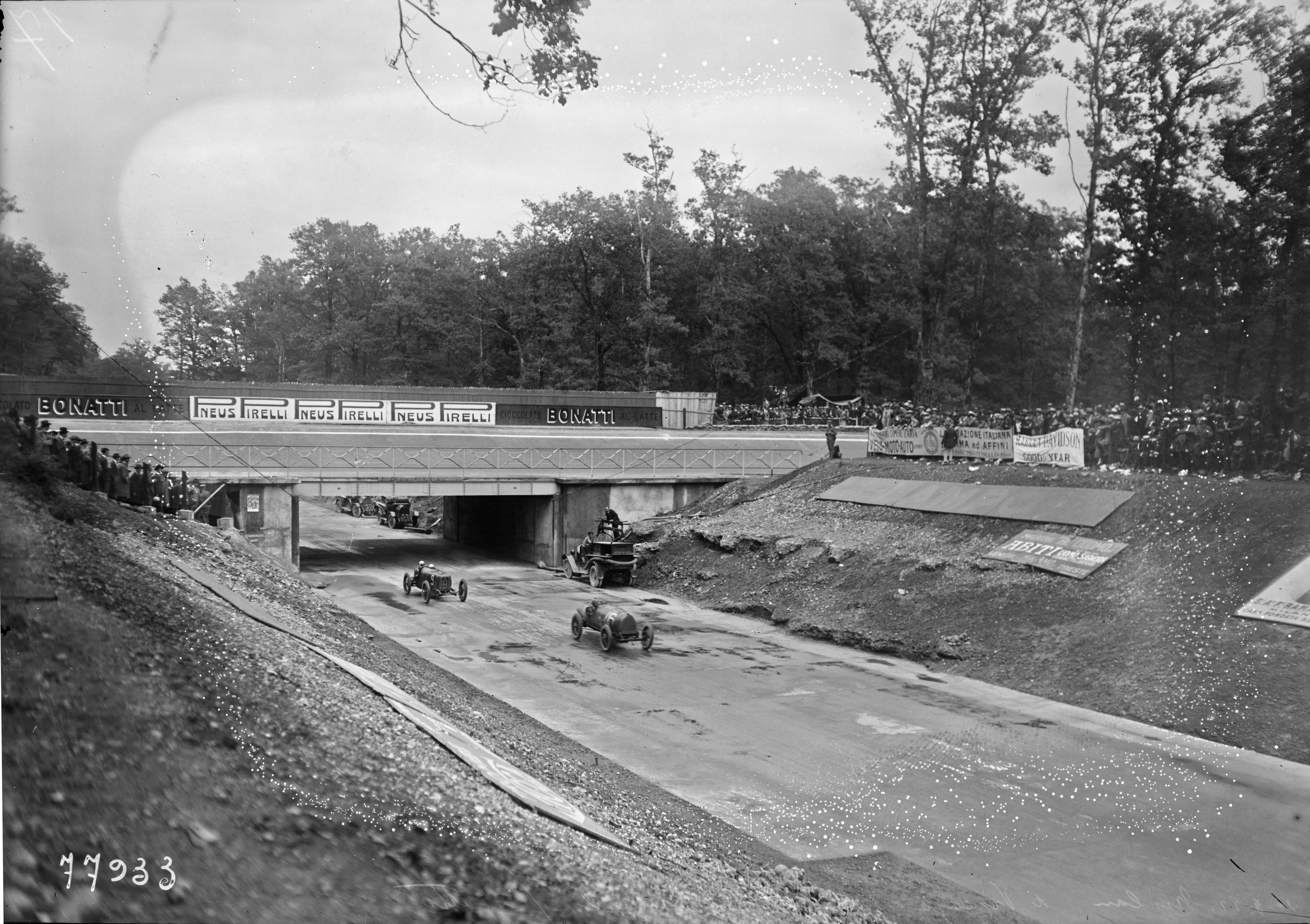 Bridge at the 1922 Italian Grand Prix